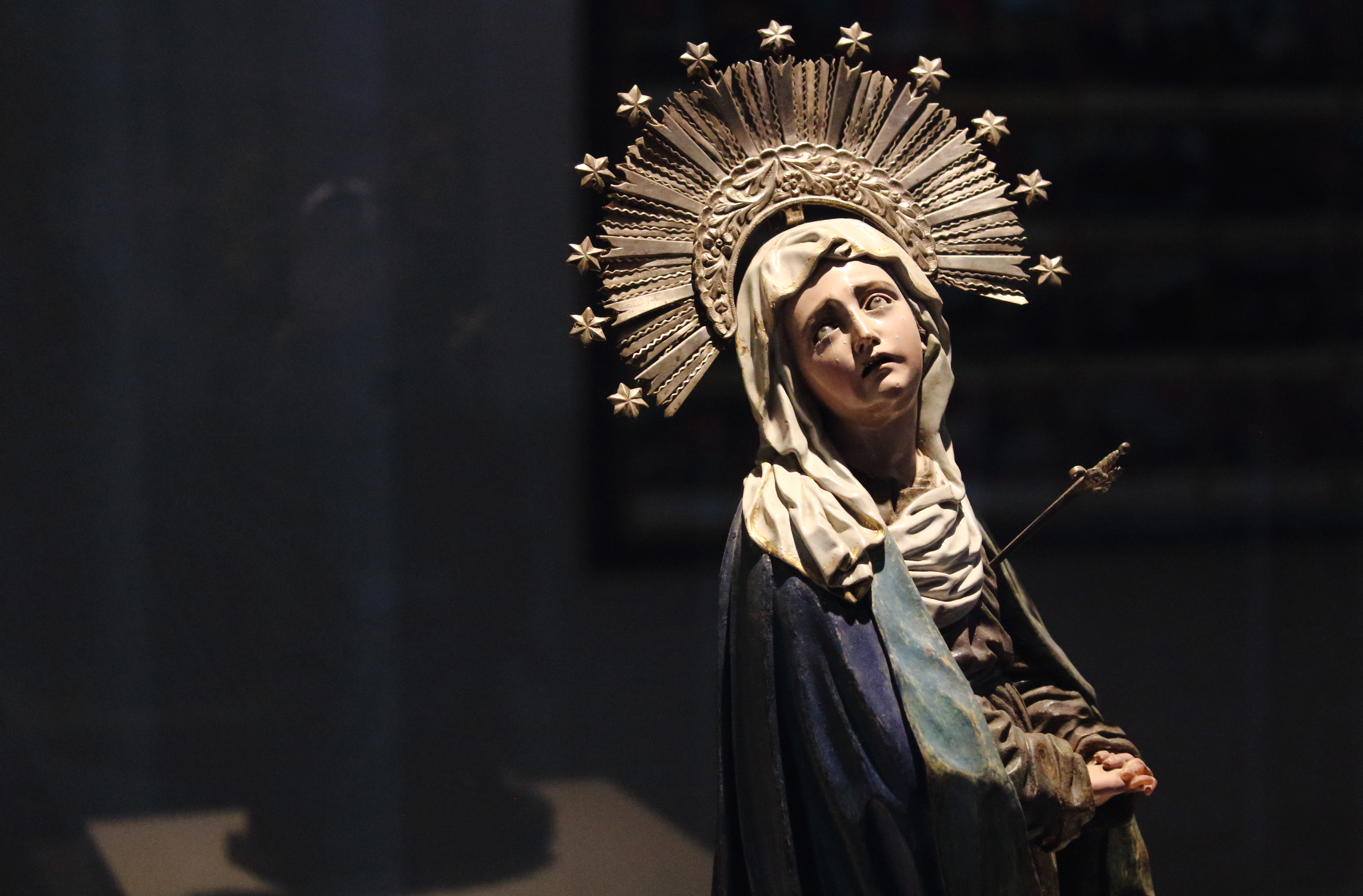 Virgen Dolorosa (18th Century) in the Fort Museum of Loreto, Puebla.